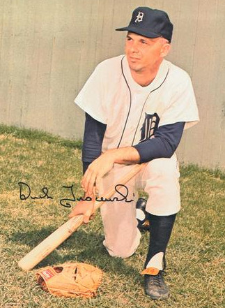 Professional baseball player Dick Tracewski